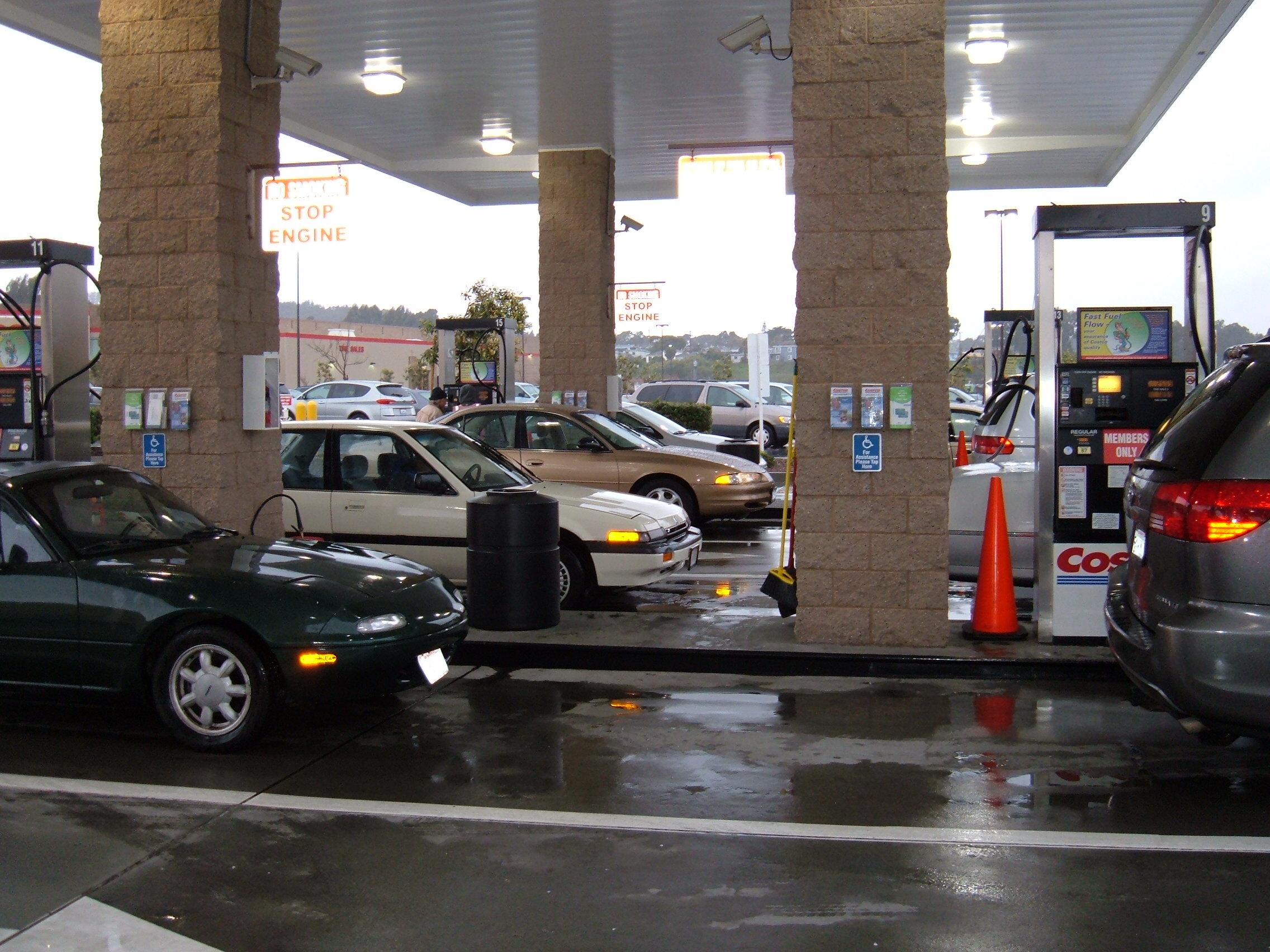 Gas station of a Costco Wholesale warehouse in South San Francisco, California.